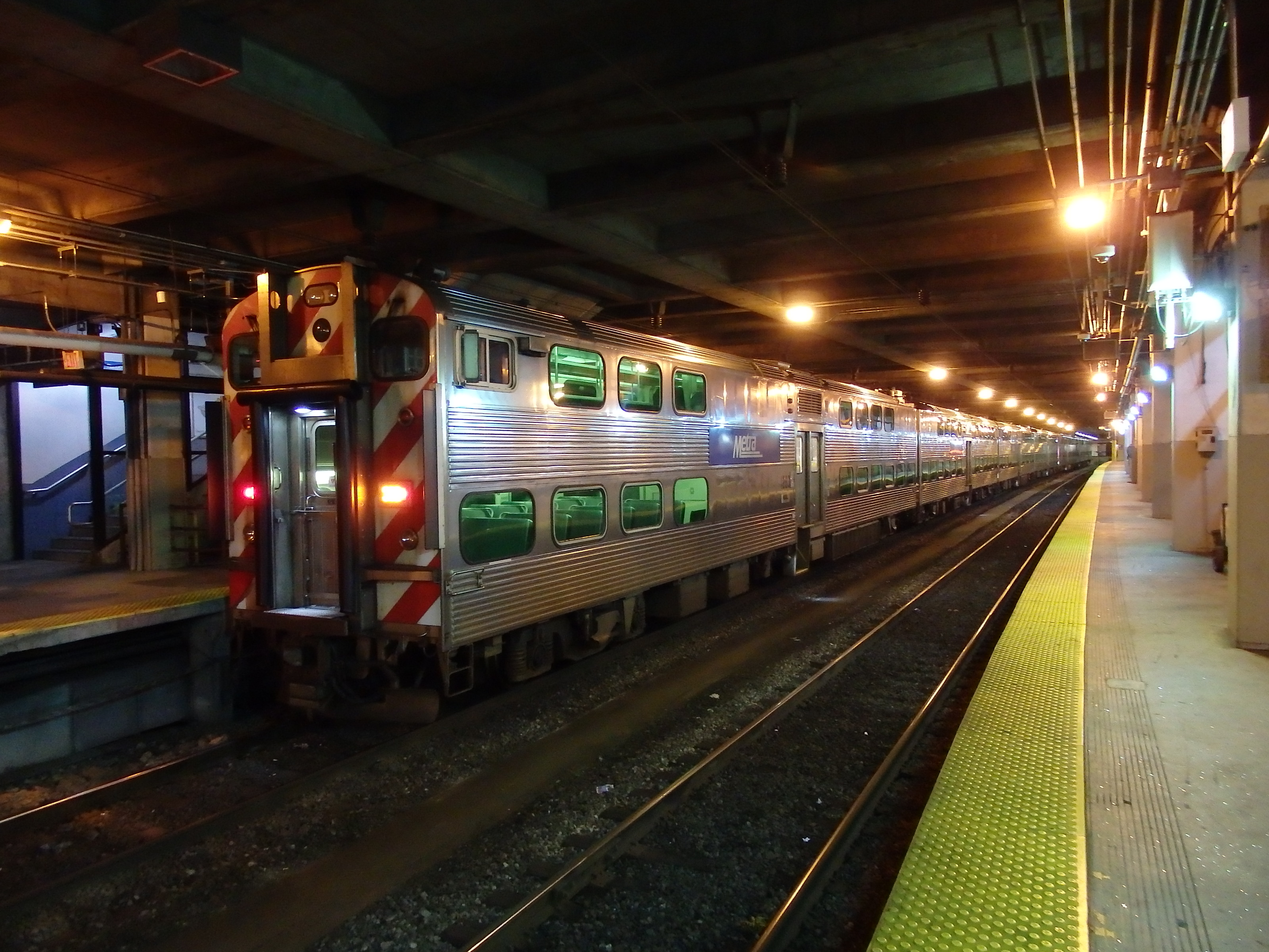 Nippon Sharyo's Highliner of Metra at Millennium Station.